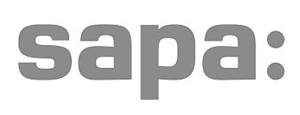 This is the new and proper company logo for the Norwegian company Sapa AS